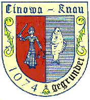 Coats of arms of Knau, a community in Thuringia, Germany.